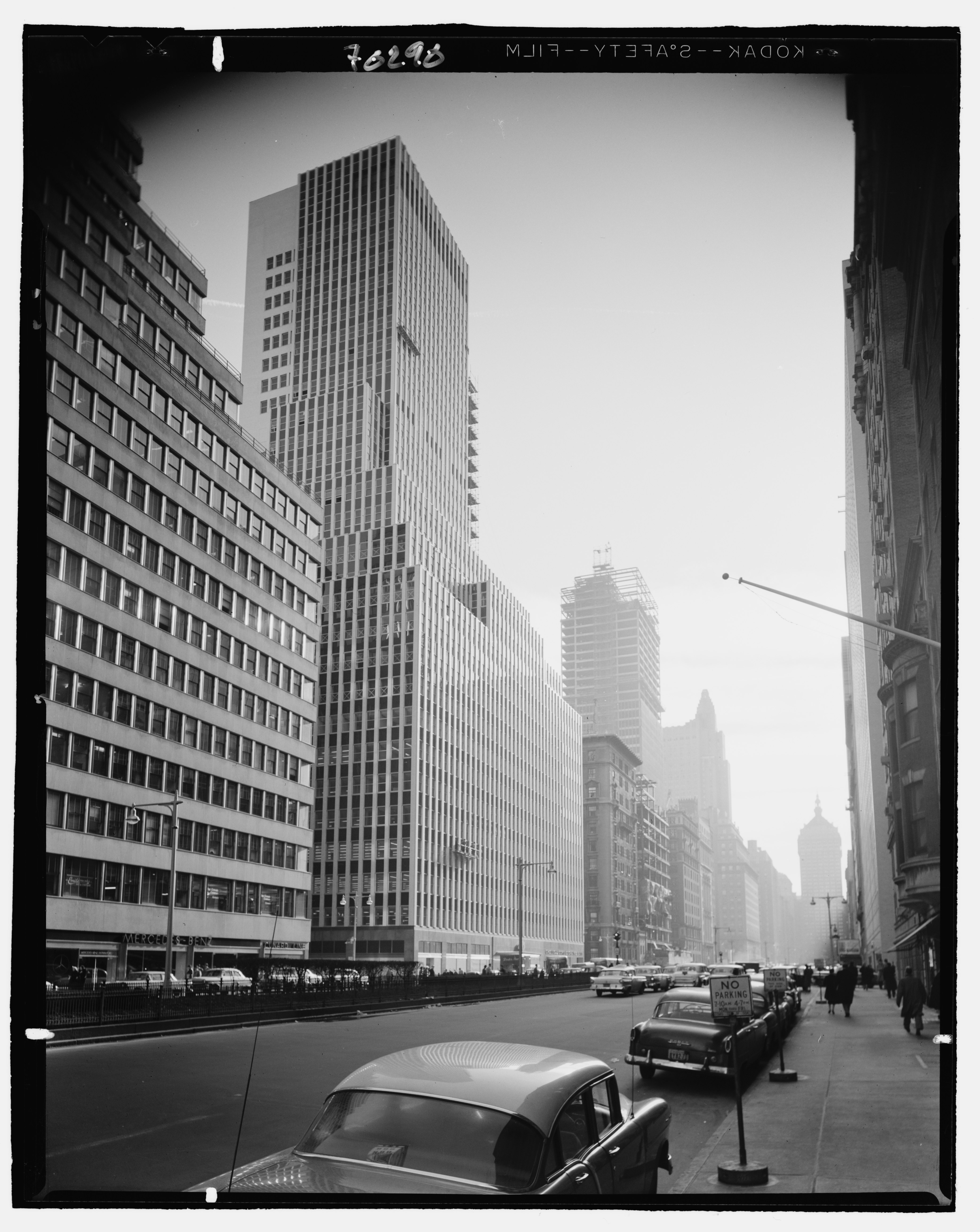 Title: 425 Park Ave. Abstract/medium: Gottscho-Schleisner Collection (Library of Congress) Physical description: 1 negative